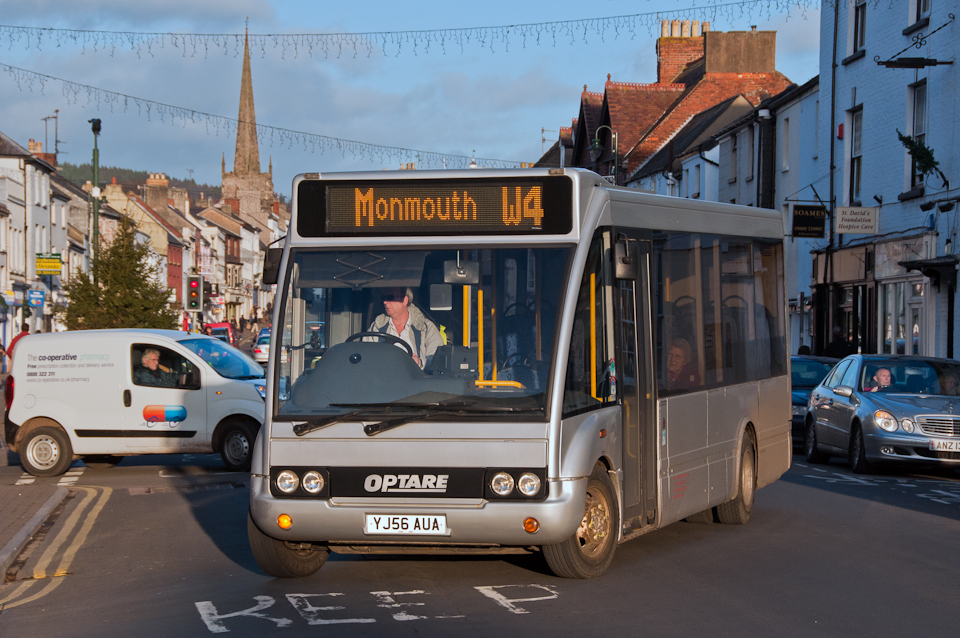 Veolia Transport Cymru, YJ56 AUA. Optare Solo. Photographed in winter sunshine on Monnow Street, Monmouth where it was working town service W4 Monmouth to/from Osbaston.